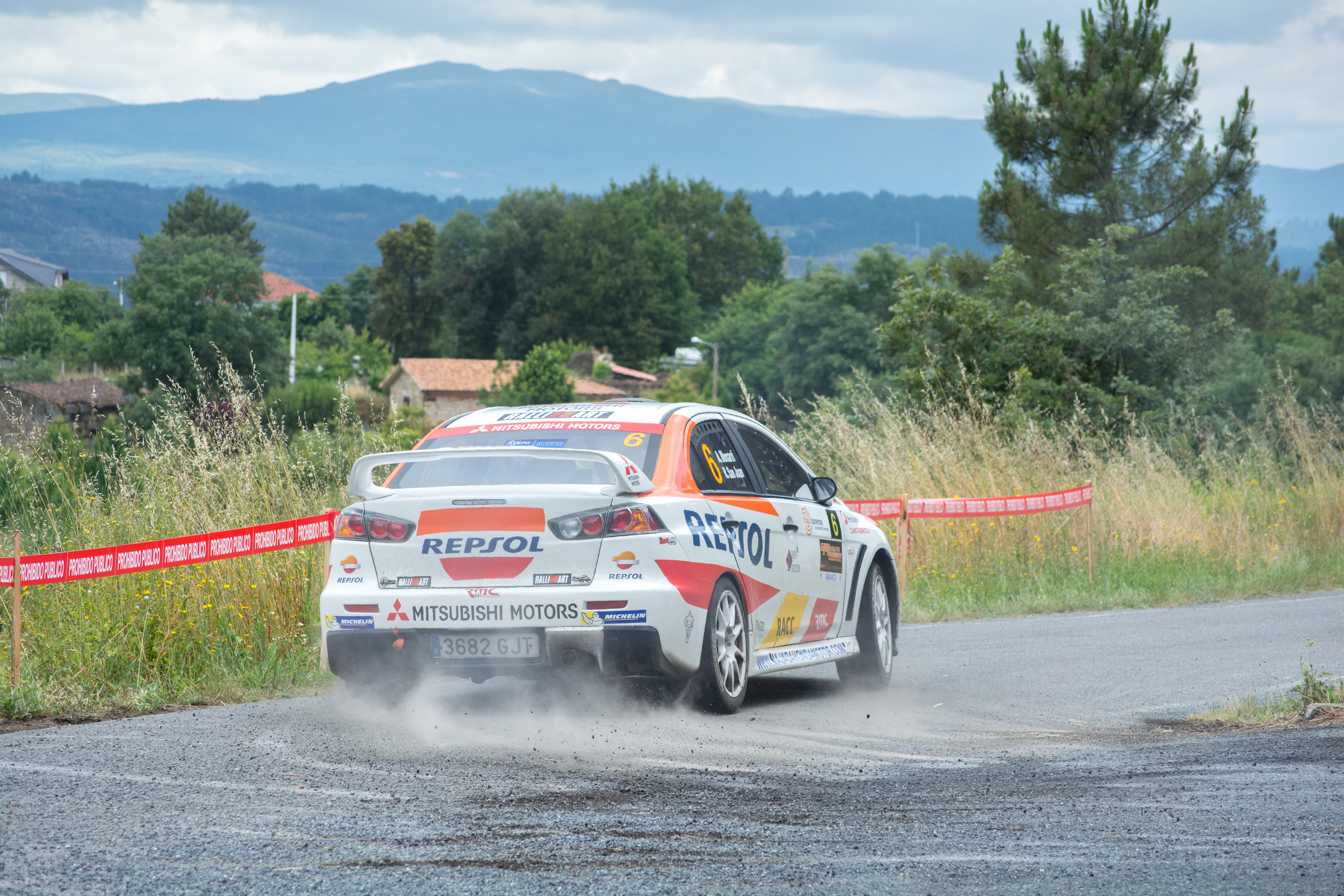 '49 TRally de Ourense ' in 2016, in the city of Ourense, scoring for the CERA.